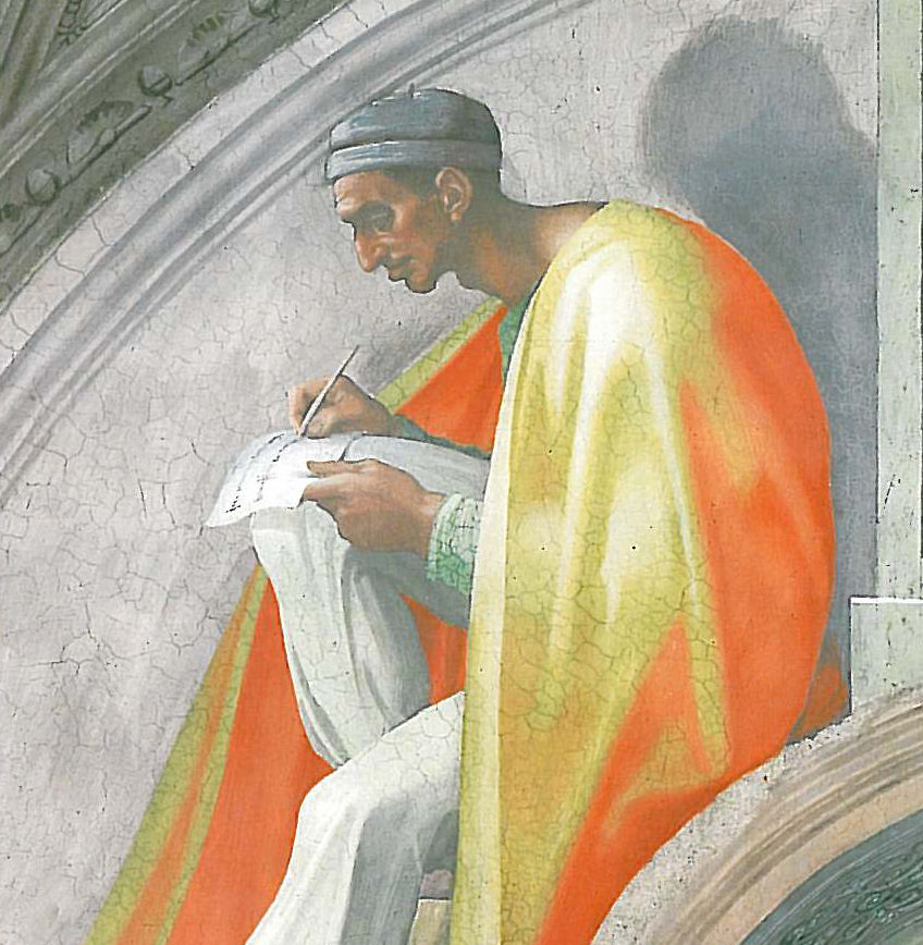 fresco painted by Michelangelo and his assistants for the Sistine Chapel in the Vatican between 1508 to 1512